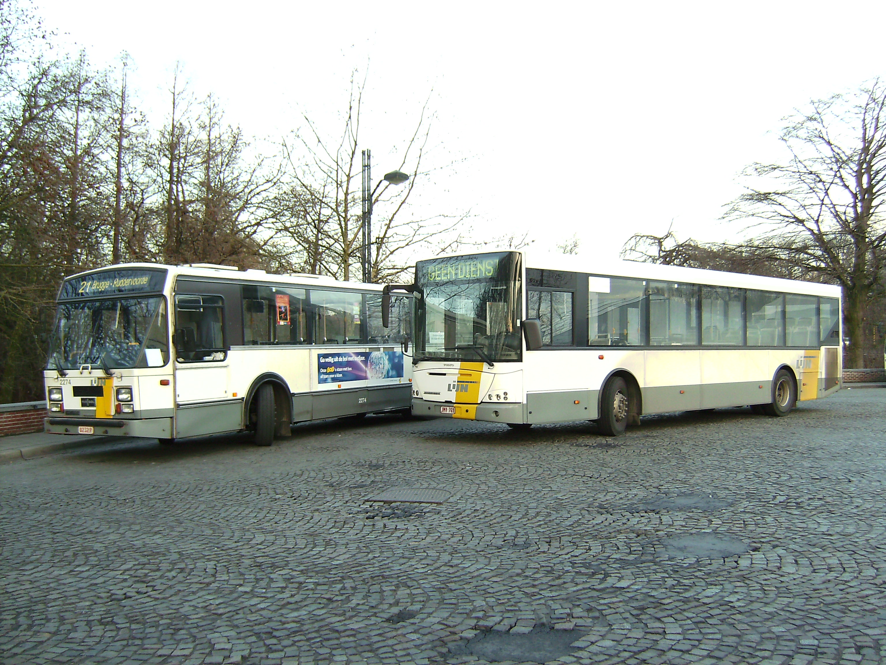 Two buses in Bruges, in the station square.